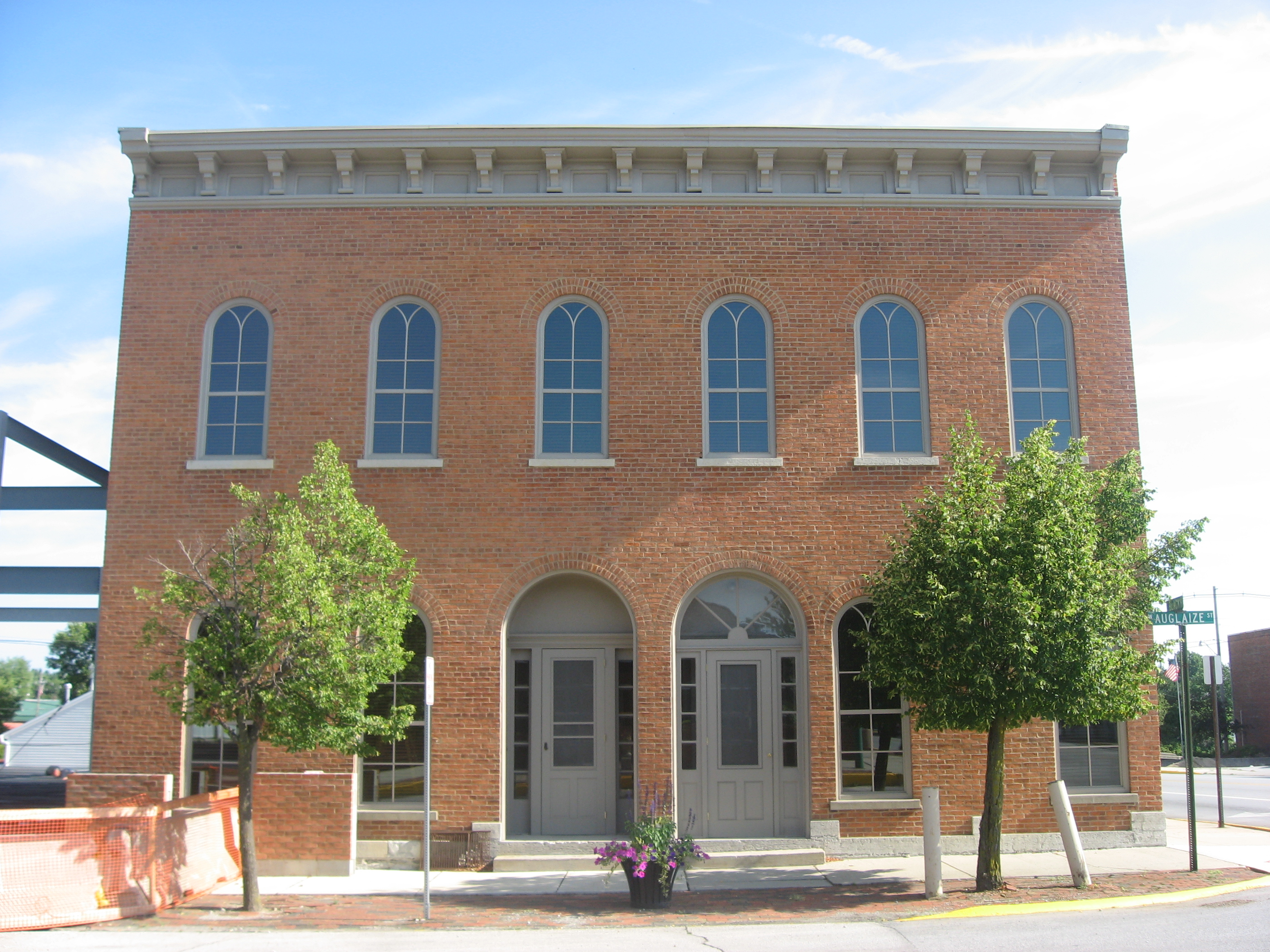 Front of the Charles Wintzer Building, located at 202 W. Auglaize Street in downtown Wapakoneta, Ohio, United States. Built in 1872 and formerly used partially as a house, it is listed on the National Register of Historic Places. Owner's website.